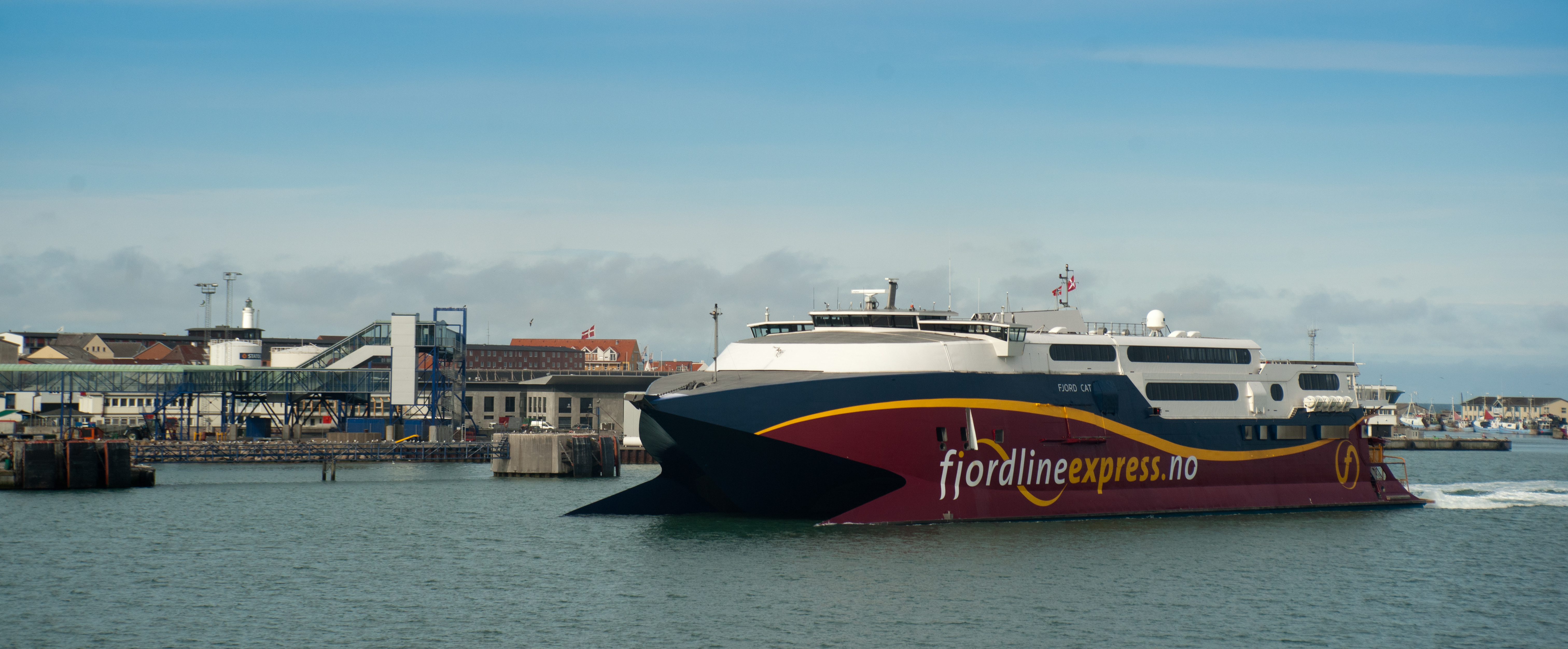 Fjordline express ferry, Hirtshals, Denmark.